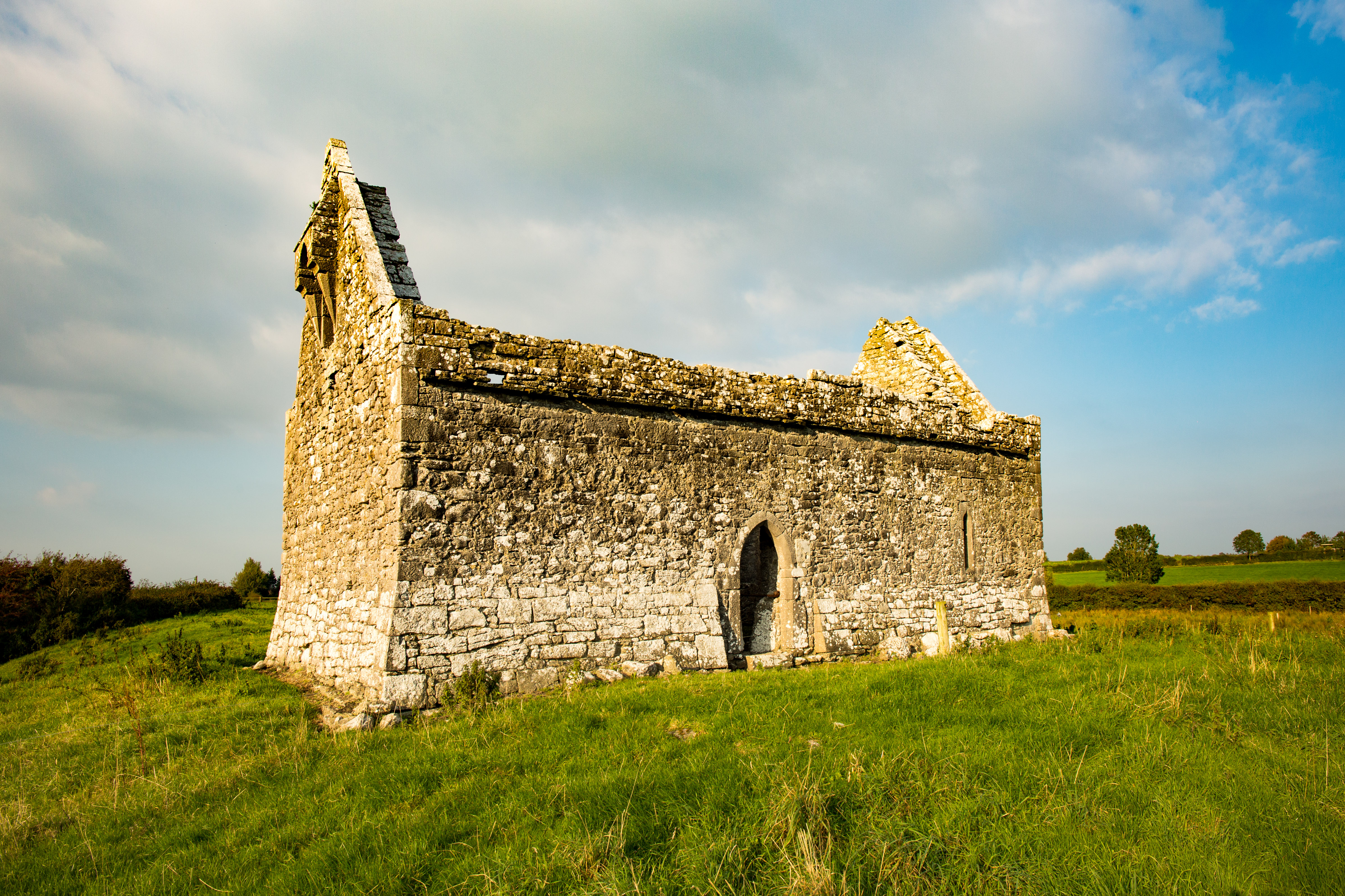 Killeen Cowpark Church on a September afternoon.